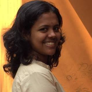 writer